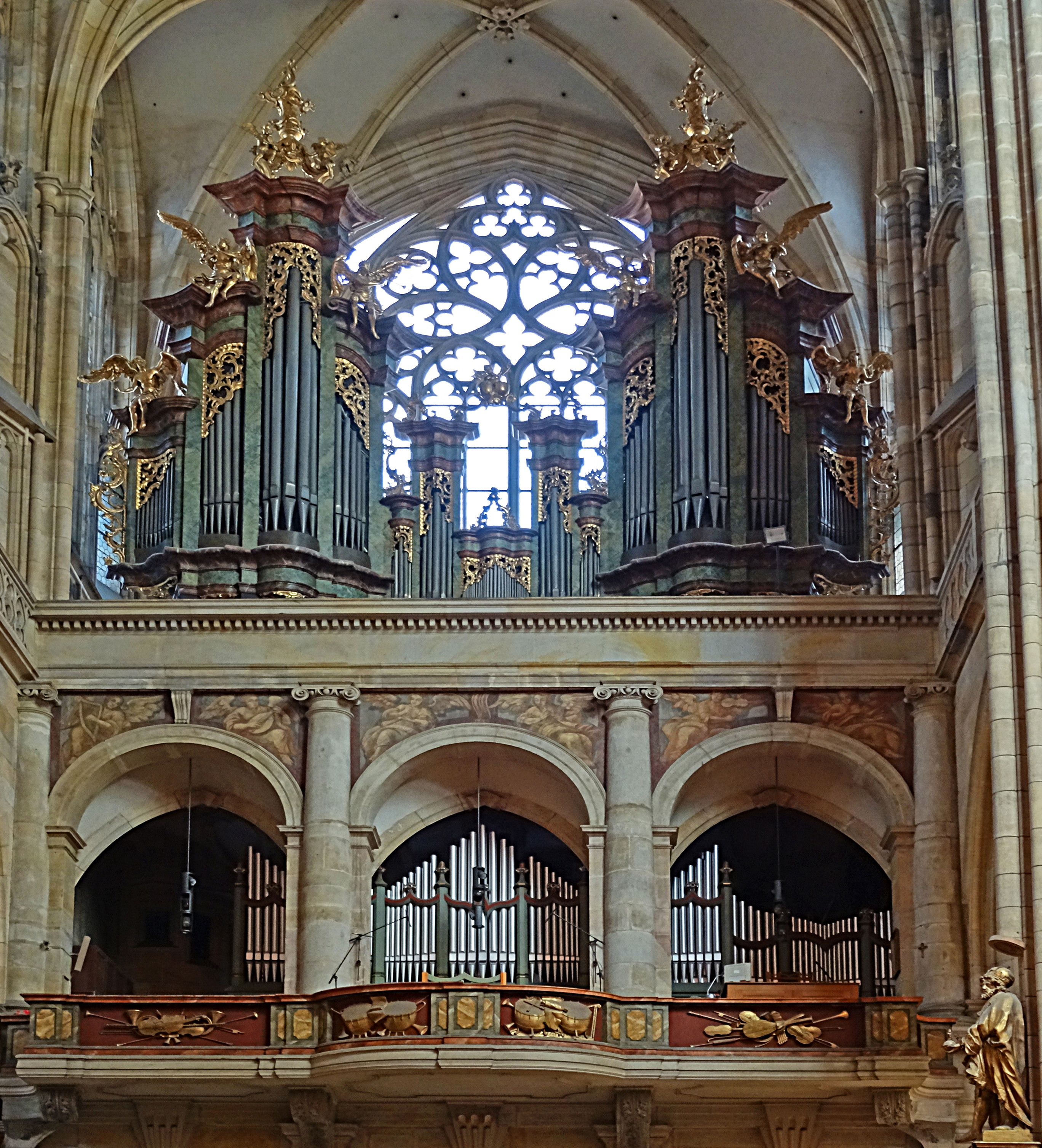 Organ by Josef Mölzer (1932 IIIP/58, 4.475 pipes), northern transept in St. Vitus Cathedral (Prague)